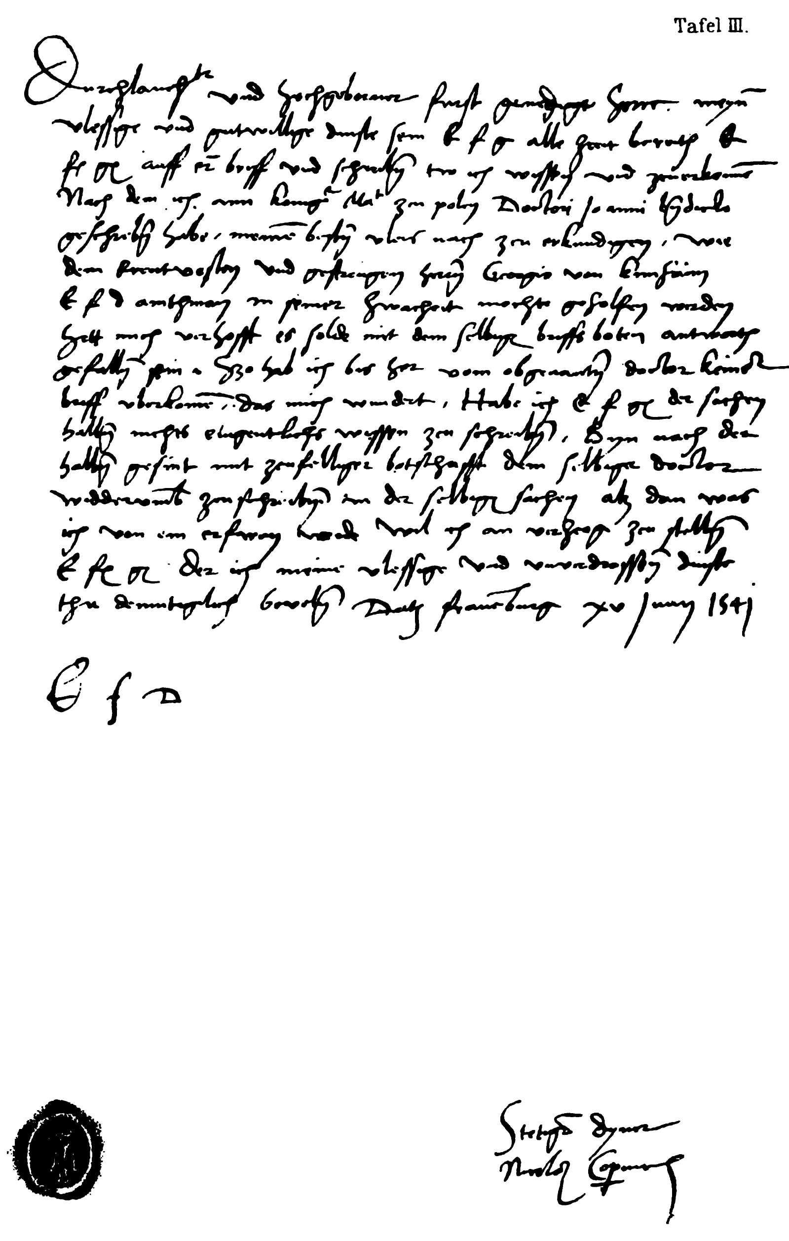 Nicolaus Copernicus' letter in German to Duke Albrecht of Prussia, dated 25 June 1541. Reproduction of the manuscript, as taken from Leopold Prowe's (1821-1887) Nicolaus Coppernicus, 1884, Tafel III. For Prowe's transscription of two letters, see File:Copernicus-an-Herzog-Albrecht.djvu, in Dvju-format for use in German Wikisource at An den Herzog Albrecht von Preussen.